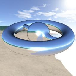 Summary Author: Gamer3D Not available online. A 3D model with a reflection map. Made specifically for Wikipedia using Zanoza Modeler (free software